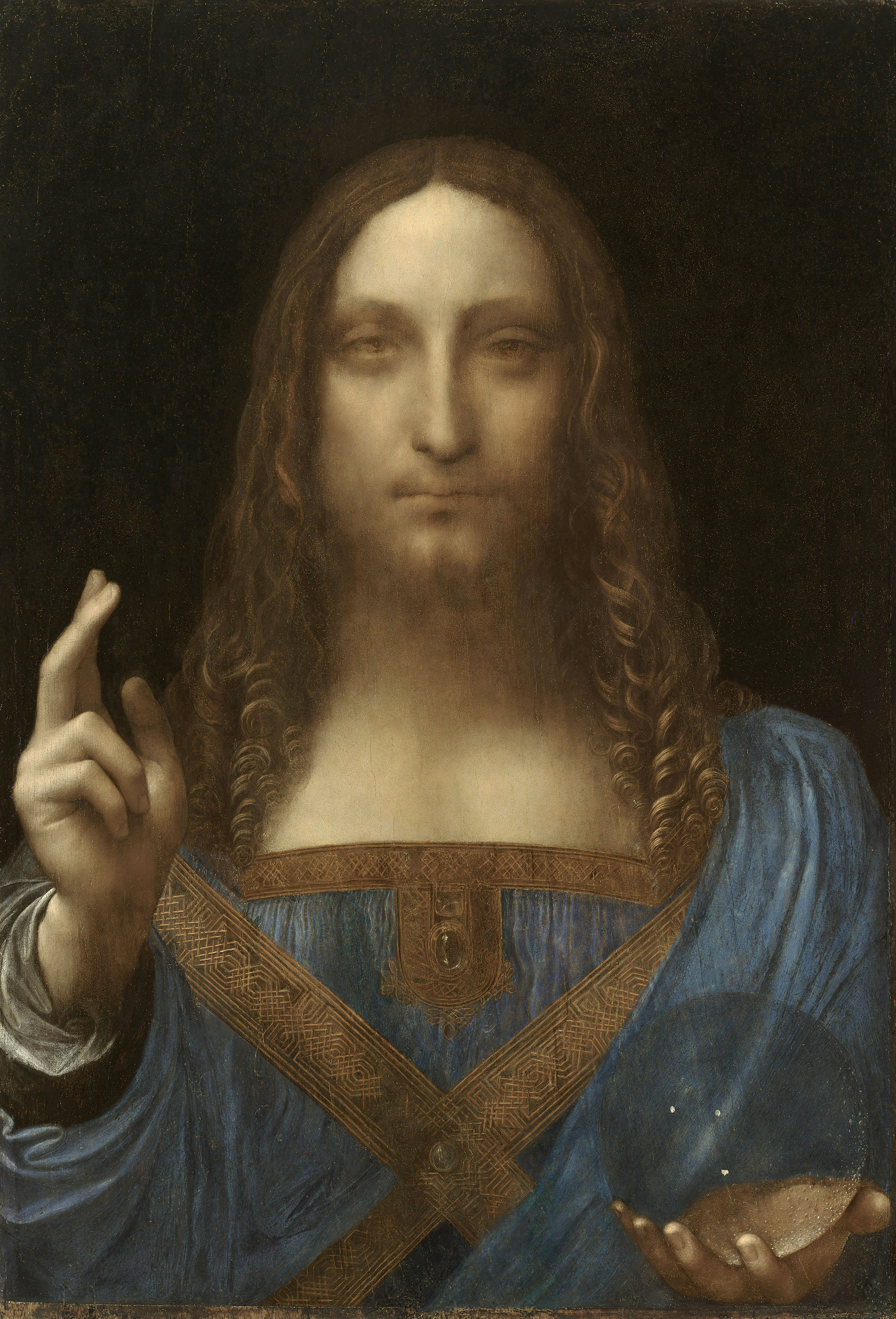 Reproduction of the painting after restoration by Dianne Dwyer Modestini, a research professor at New York University.